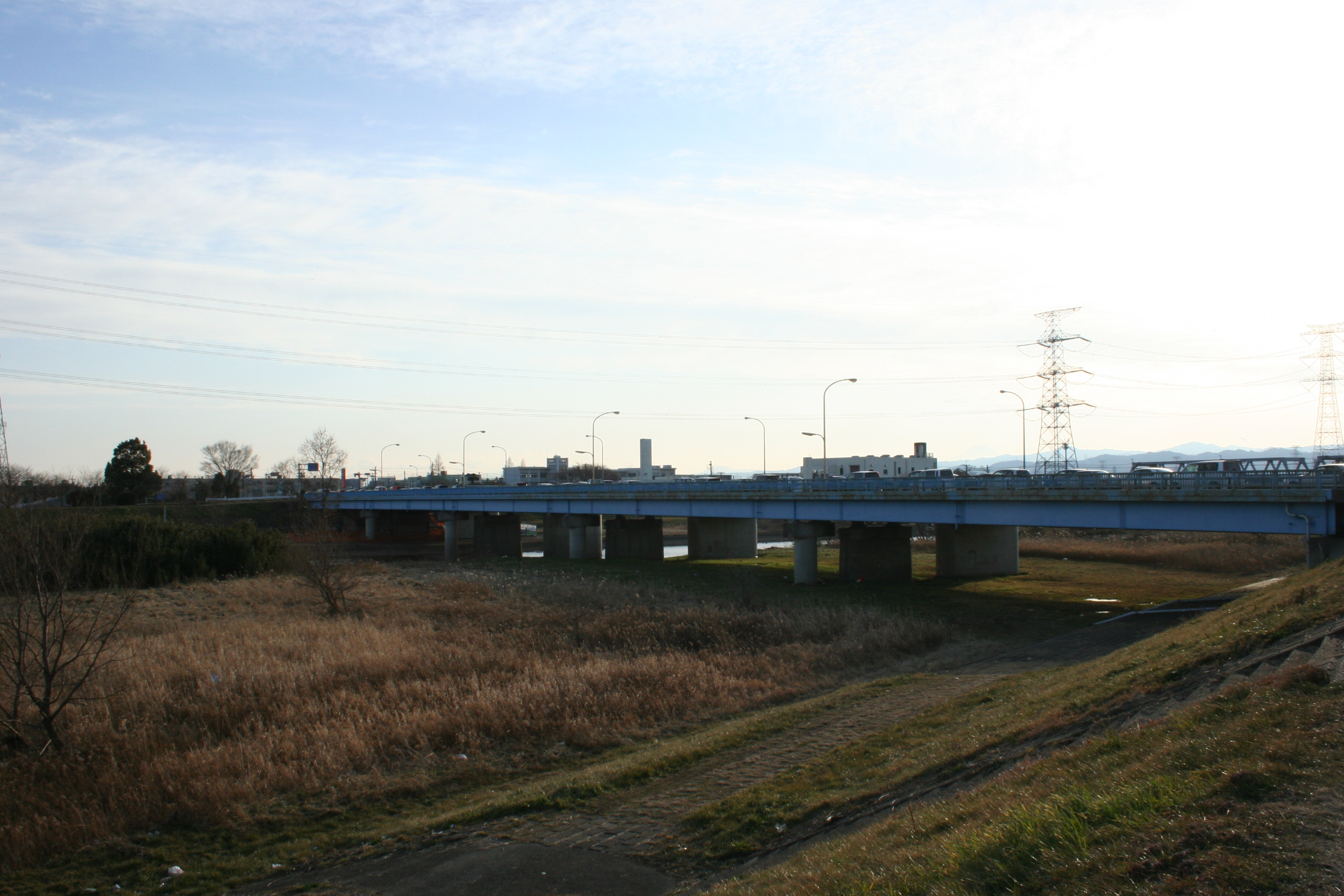 Takasaka Bridge on Oppe-river(Route 407), between Higashimatsuyama-shi and Sakado-shi, Saitama, Japan